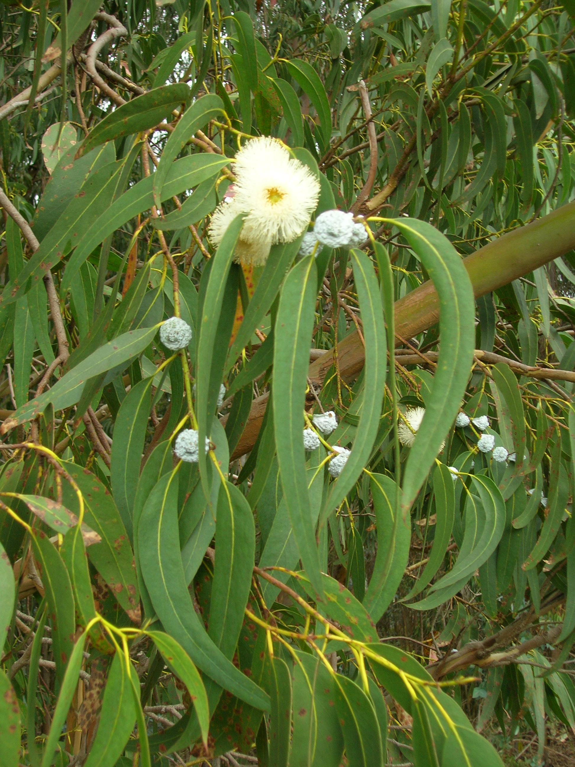 Eucalyptus globulus (flowers and leaves). Location: Maui, Haleakala Ranch